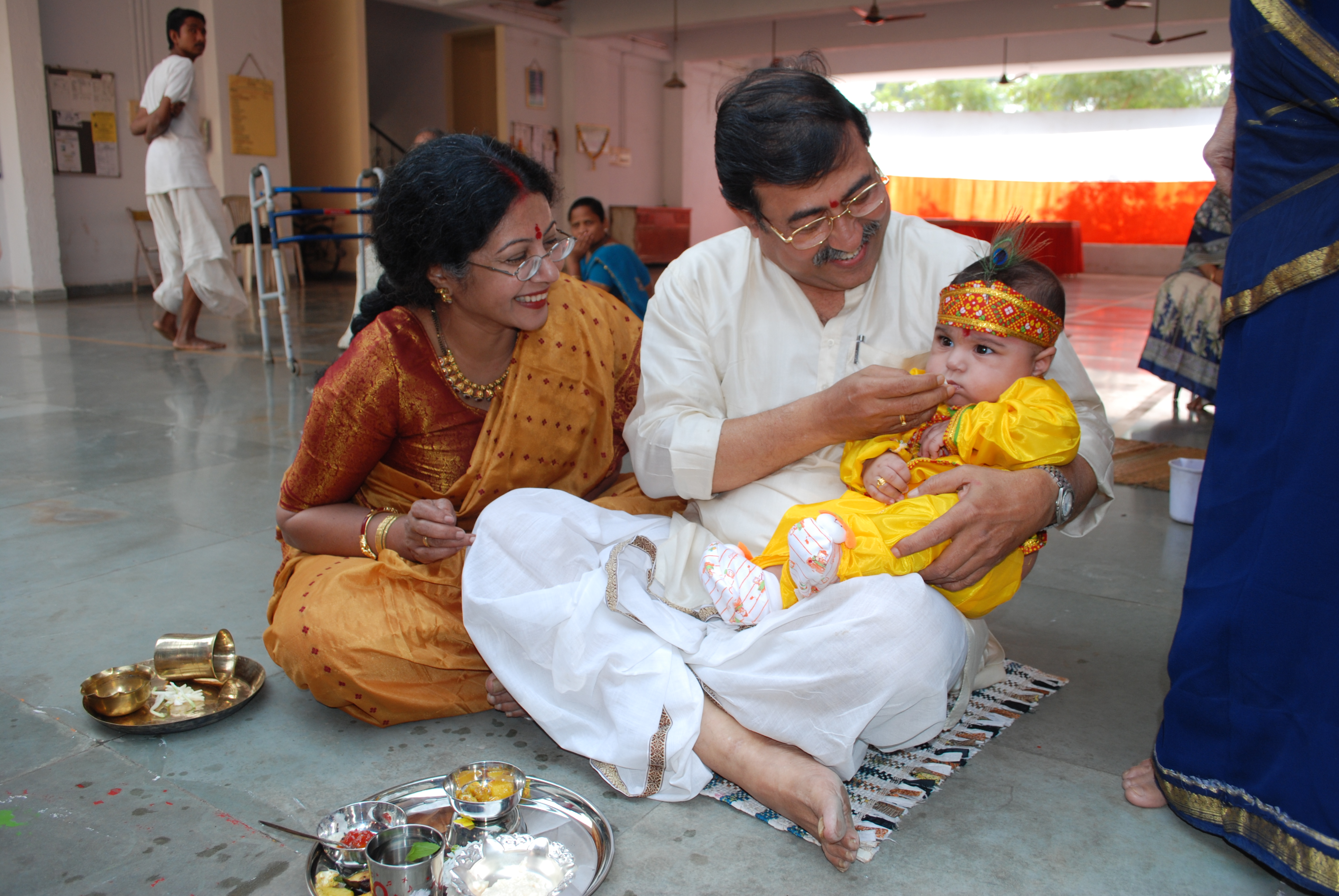 Annaprashan, also known as annaprashan vidhi, annaprasan, or Anna-prasanam is a Hindu rite-of-passage ritual that marks an infant's first intake of food other than milk. The term annaprashan literally means "food feeding" or "eating of food". The ceremony is usually arranged in consultation with a priest, who arranges an auspicious date on which to conduct the ceremony. Commonly referred to in English as First Rice, the ceremony is usually carried out when the child is about 6 months of age. (some Hindu communities do it later). It is an occasion for celebration, and extended family, friends and neighbours will be invited to attend. The mother or grandmother will prepare a small bowl of payesh (boiled rice, milk & sugar) which is blessed in a brief puja. The child will generally be held in the mother's lap, and a senior male family member (grandfather or uncle) will feed it a small spoonful of the payesh, to general celebration. Other members of the family then take turns to give the child a taste. The feeding ceremony is often followed with a game, in which the child is presented with a tray containing a number of objects. These will include a bangle or jewel (symbolising wealth), a book (symbolising learning), a pen (symbolising career) and a clay pot or container of earth/soil (symbolising property). The child's future direction and prospects in life are indicated by the object which it prefers to hold and play with. Further in some places of india will celbrate at temples.. some of the south india people celebrate this function at Guruvayur Kera temple. Most of the people will celebrate at home itself by inviting relatives, Near & dear. In Andhra annaparasana will celebrate by offering Pen, food, Gold, Book etc. child allows to selct one of them and after tahat they decides childs future.. as a gussing purpose..